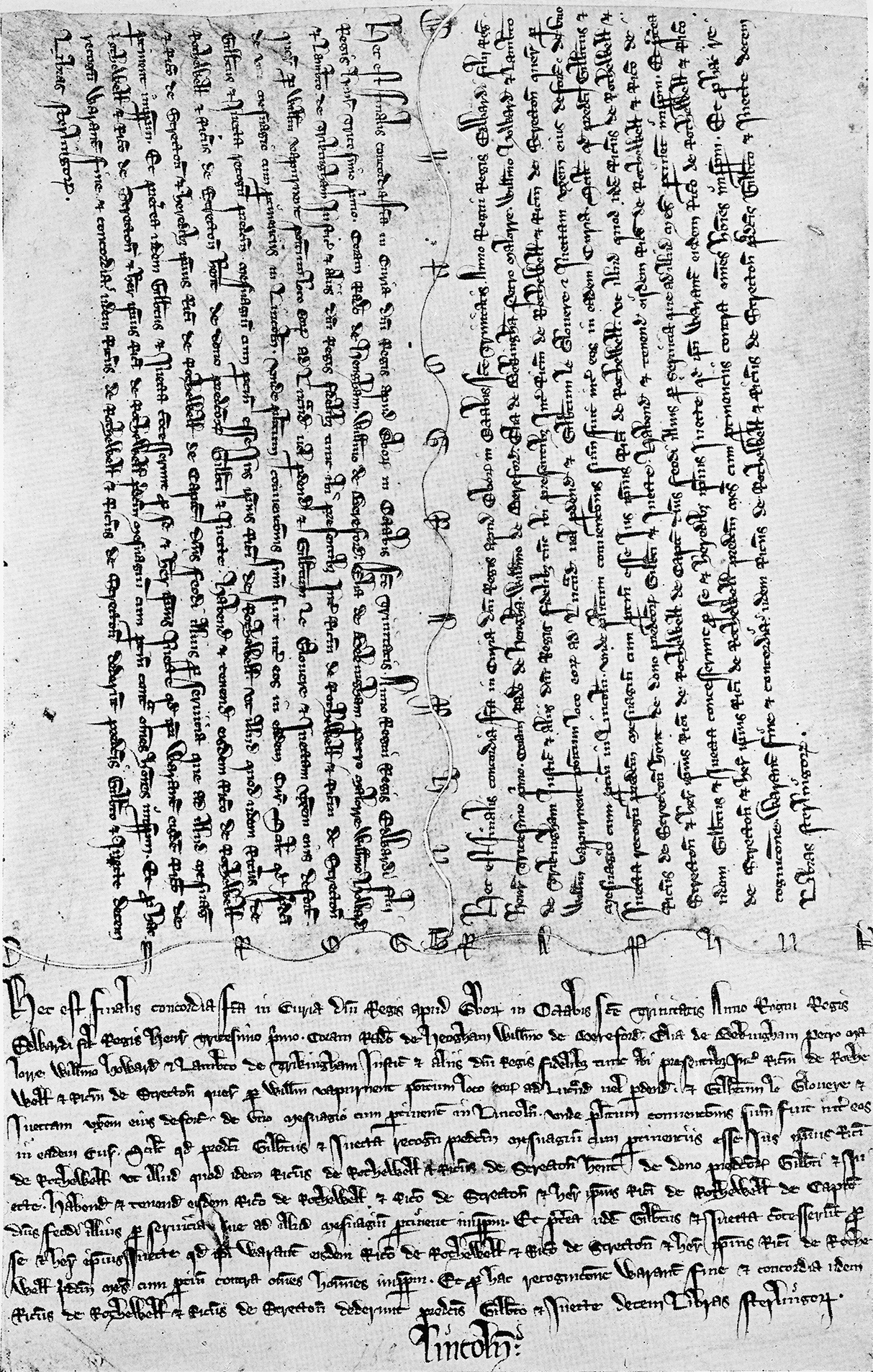 A specimen of final concord, or fine of lands, dealing with a messuage with appurtenances in the County of Lincoln, dating to 1303. The two vertical blocks of text, separated by a vertical wavy line, are duplicate copies of the final concord, each of which would go to the separate parties. The bottom portion, known as the foot of the fine, would be enrolled by the court so as to serve as a record of the settlement. The whole document is a chirograph, drawn up on a single piece of parchment, cut with a wavy rather than straight line, with the cut proceeding across words (usually, as in this case, "CIROGRAPHUM") written by the chirographer to work as proof that the original pieces were part of the same document.